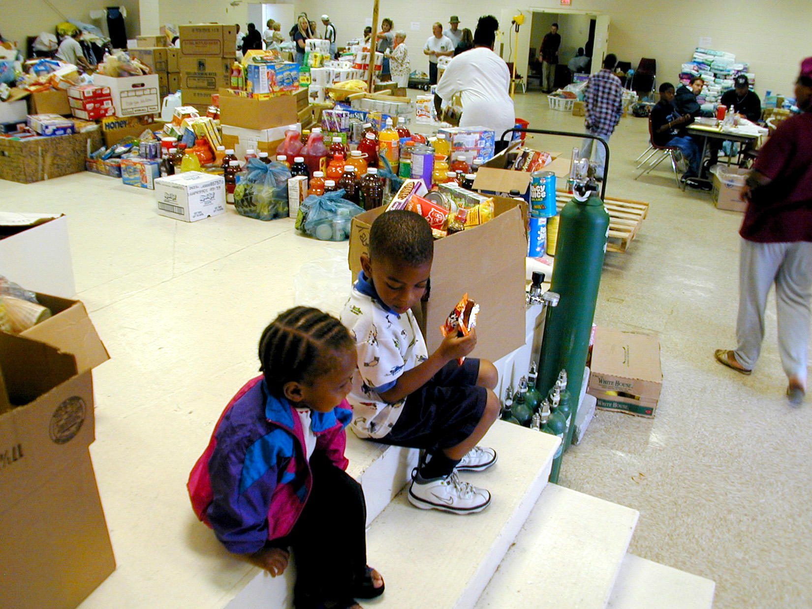 Trenton, NC, 09/21/1999 -- Young - Kimnisha Ham, 2, (L) with Decray Dawson, 4, sit snacking in the distribution center as food is parceled out to Jones Co.'s needy. Acting as a distribution center for much of Jones Co. (60% under water) is the Jones Co. Civic Ctr. Photo by DAVE GATLEY/FEMA News Photo